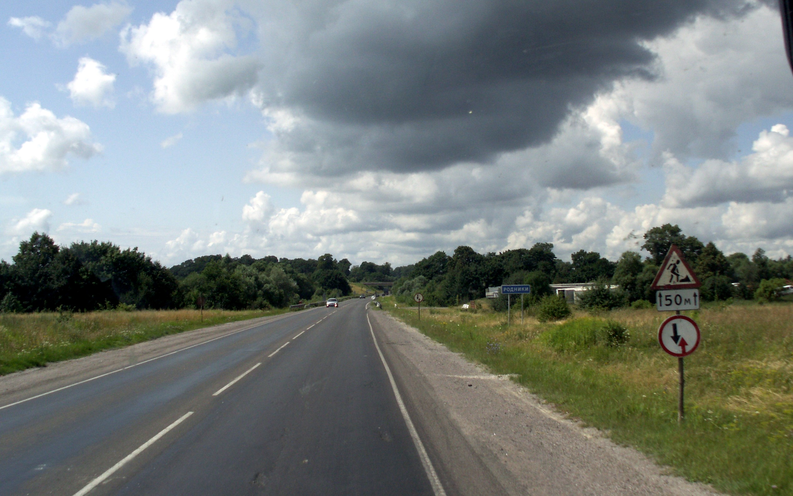 Marjino (Rodniki) in Kaliningrad oblast